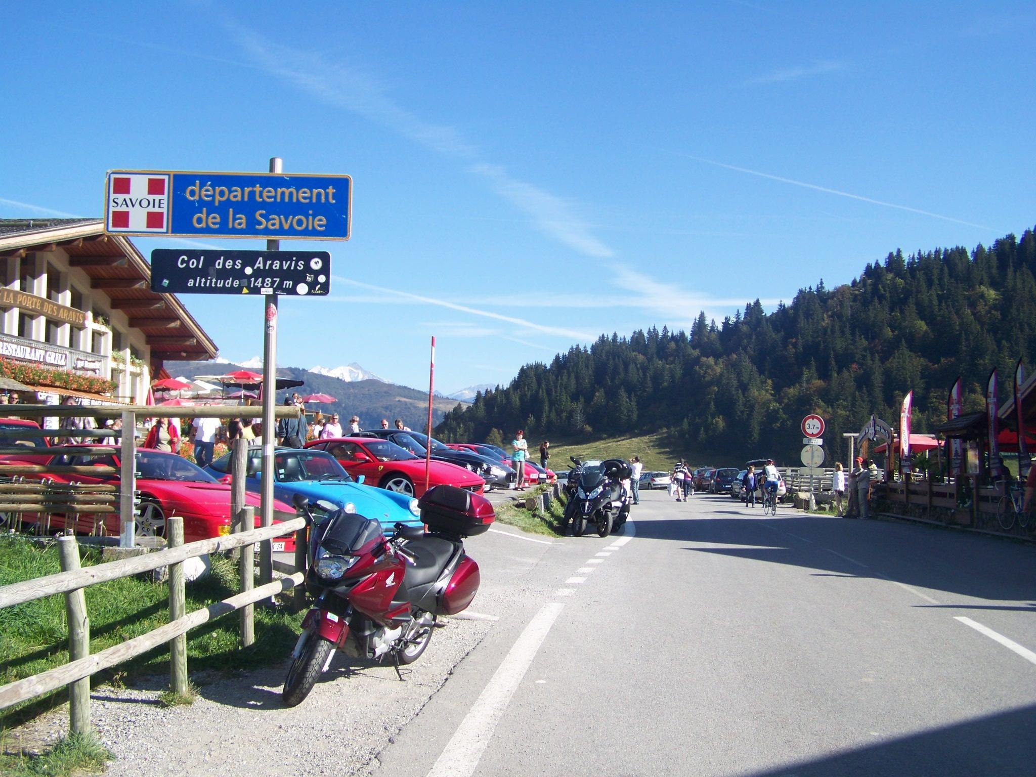 Col des Aravis pass, separating departments of Savoie and Haute-Savoie, in France (alt. 1487 metres).